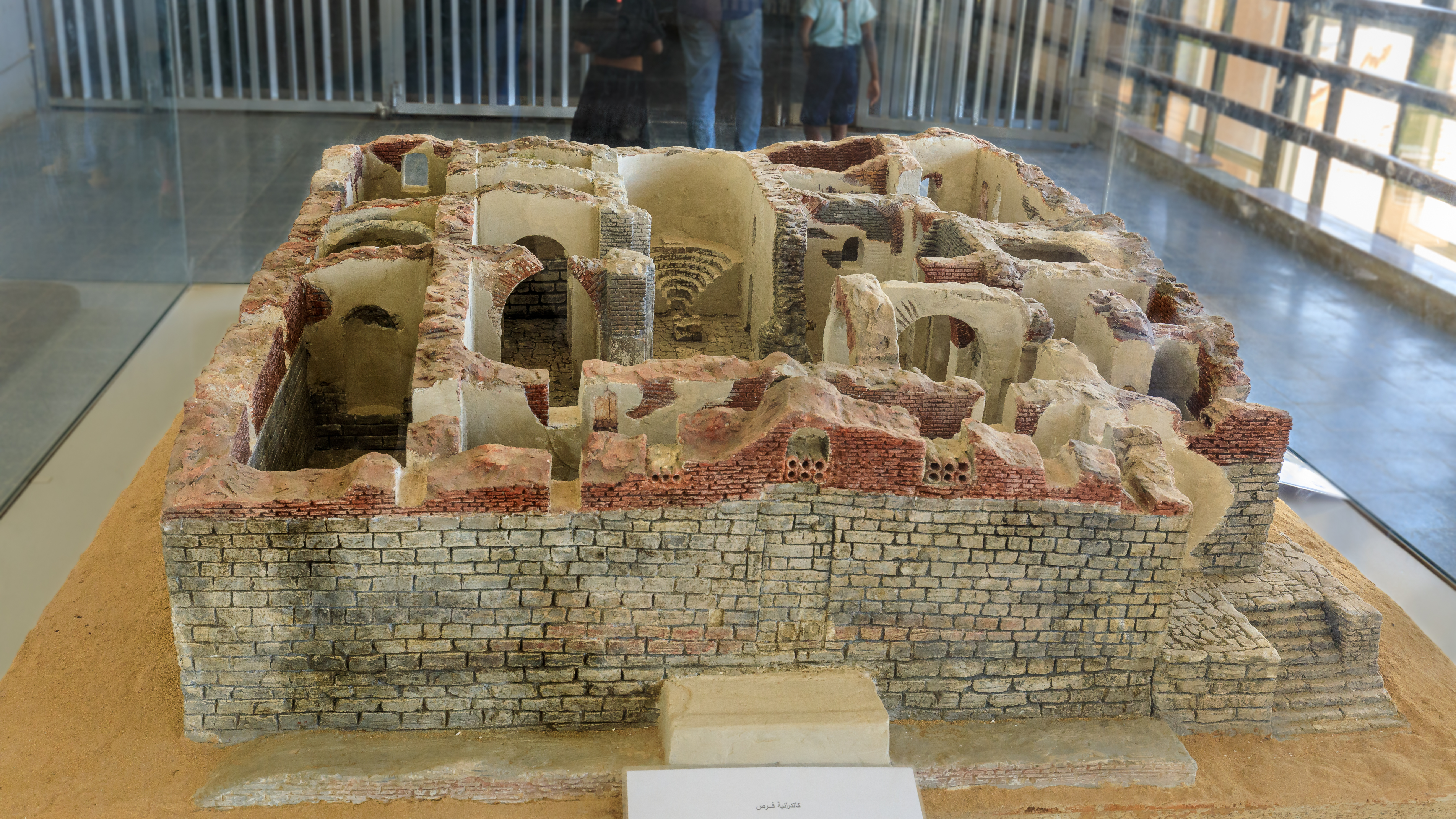 The modell represents the oldest part in the 20s of the 7th century. The cathedral itsel was submerged by the Lake Nasser.